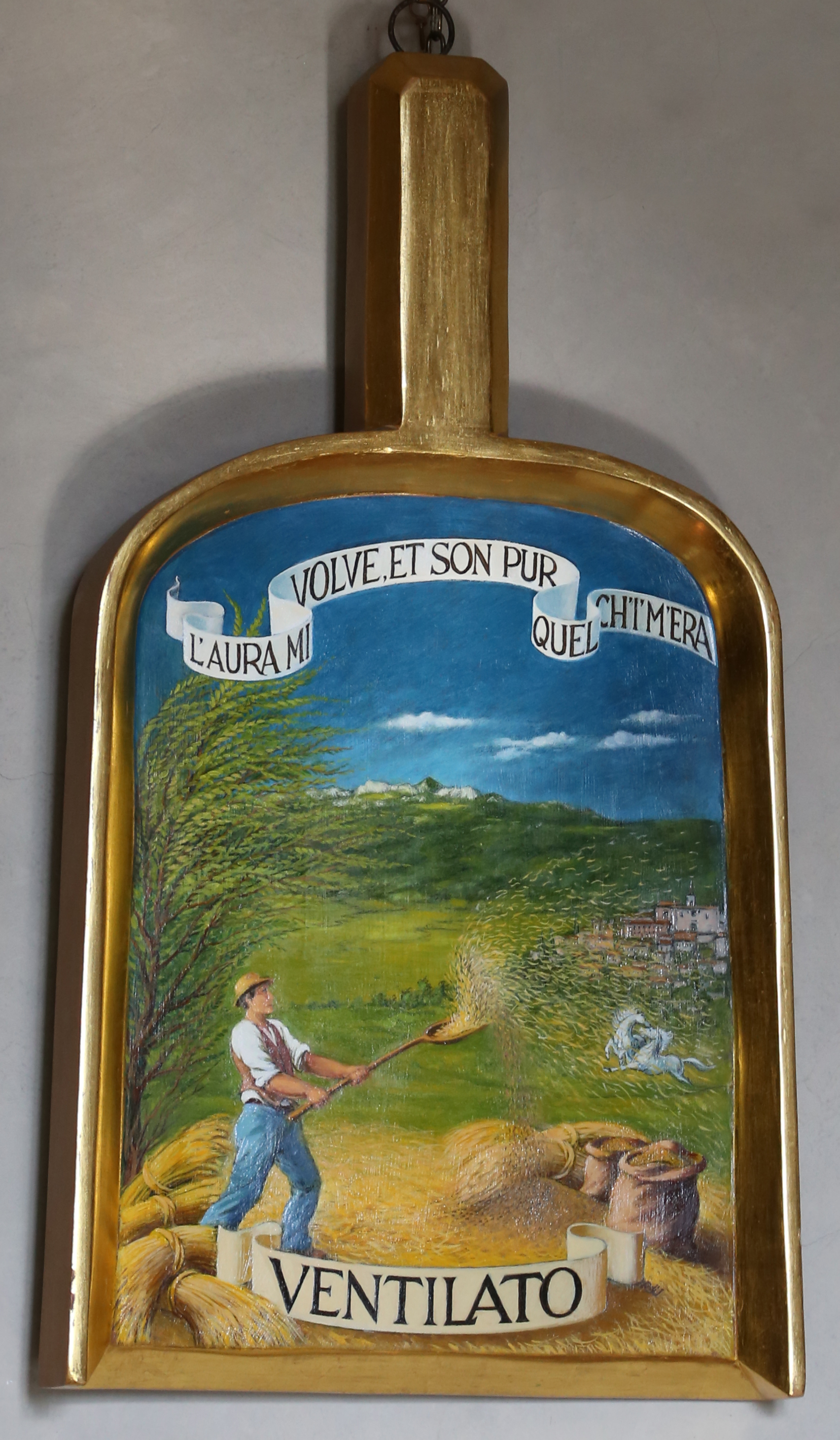 Shovels of Accademici della Crusca